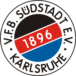 Historical logo of VfB Südstadt Karlsruhe, German football team